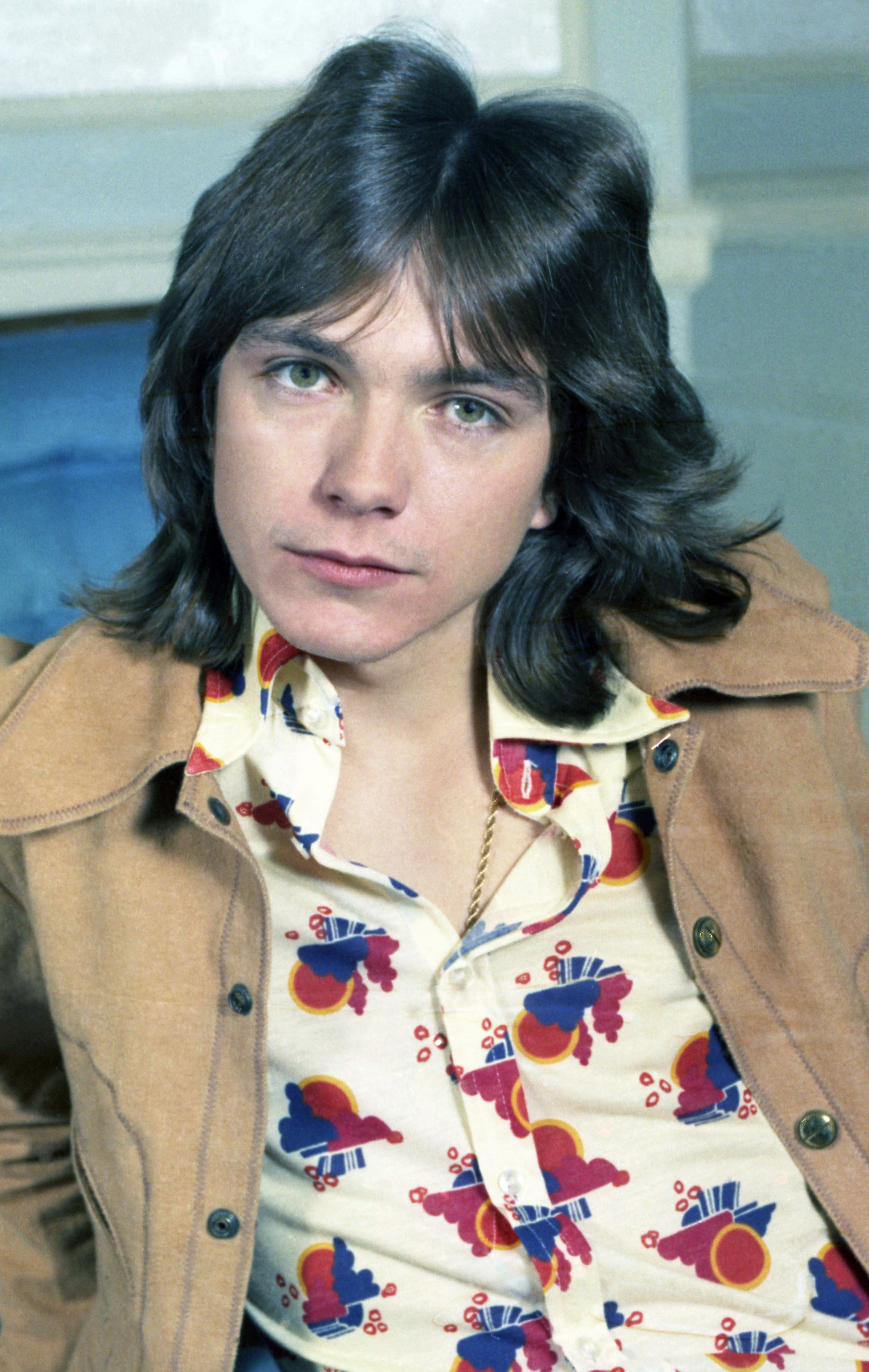 Portrait of David Cassidy taken at the Plaza Hotel New York